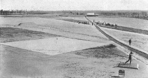 Pinehurst North Carolina USA 1901.